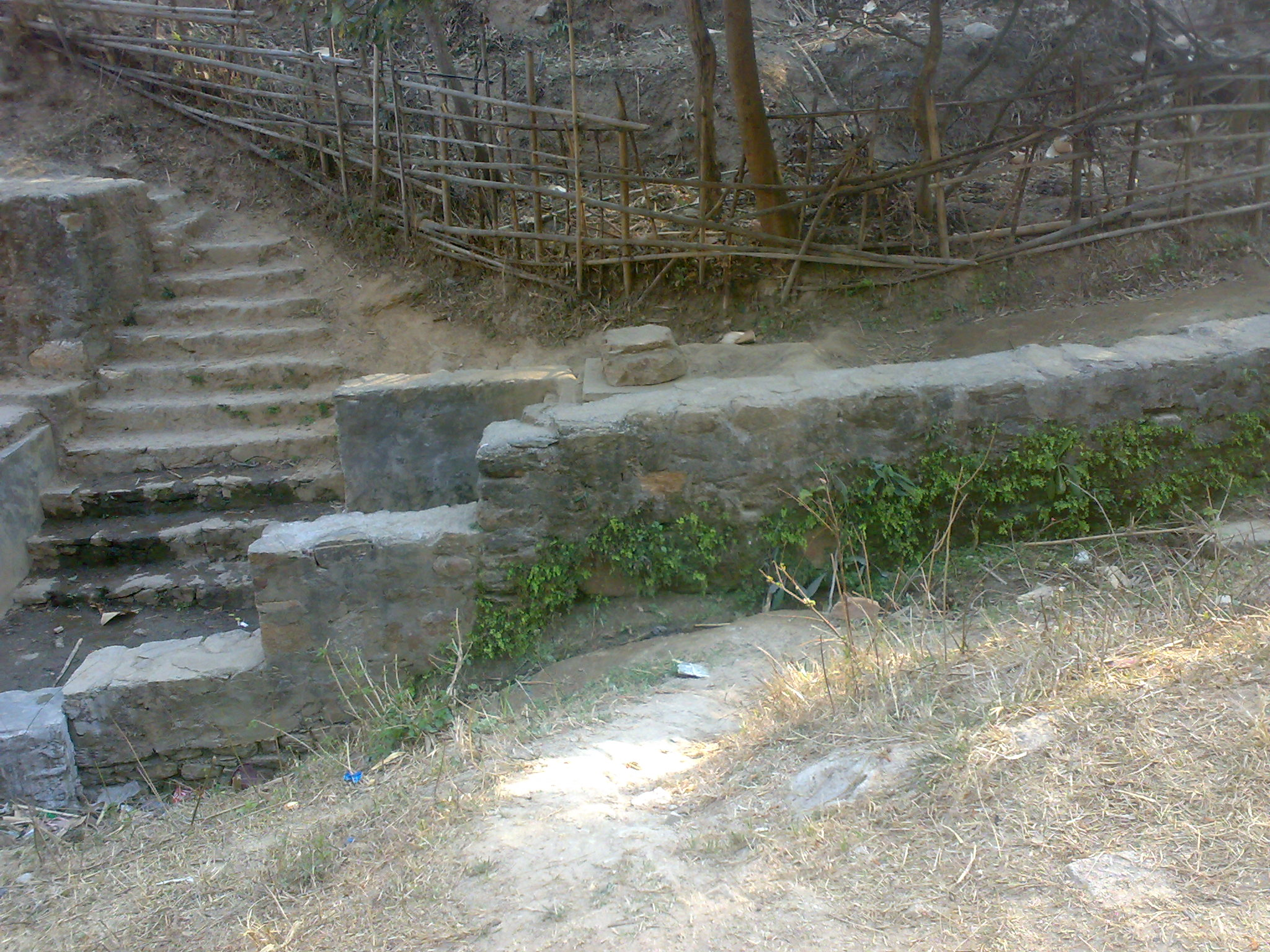 It is pond used by most of the people here for drinking water. This pond has fresh drinking water source.